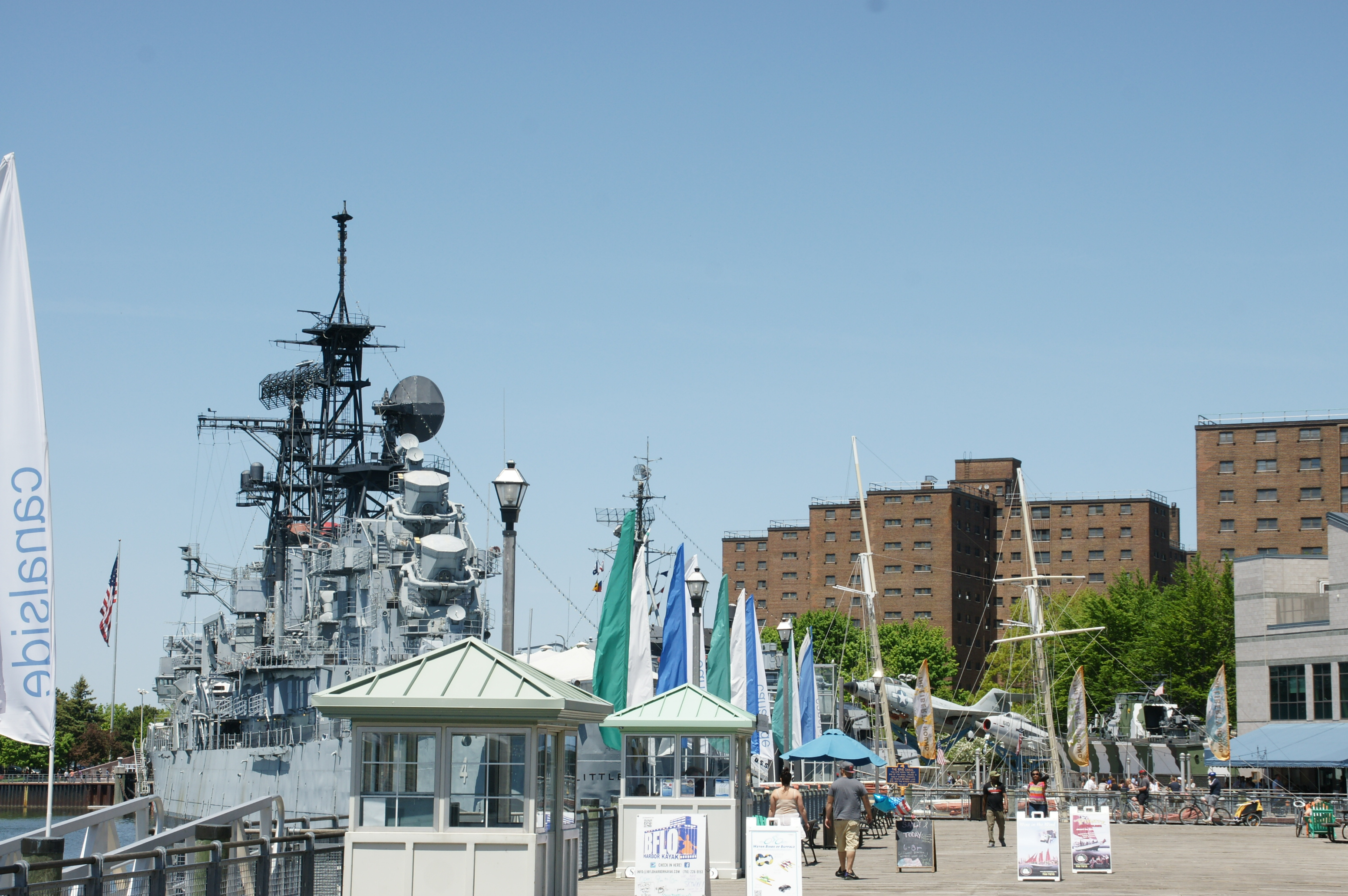 Buffalo Canalside and naval park